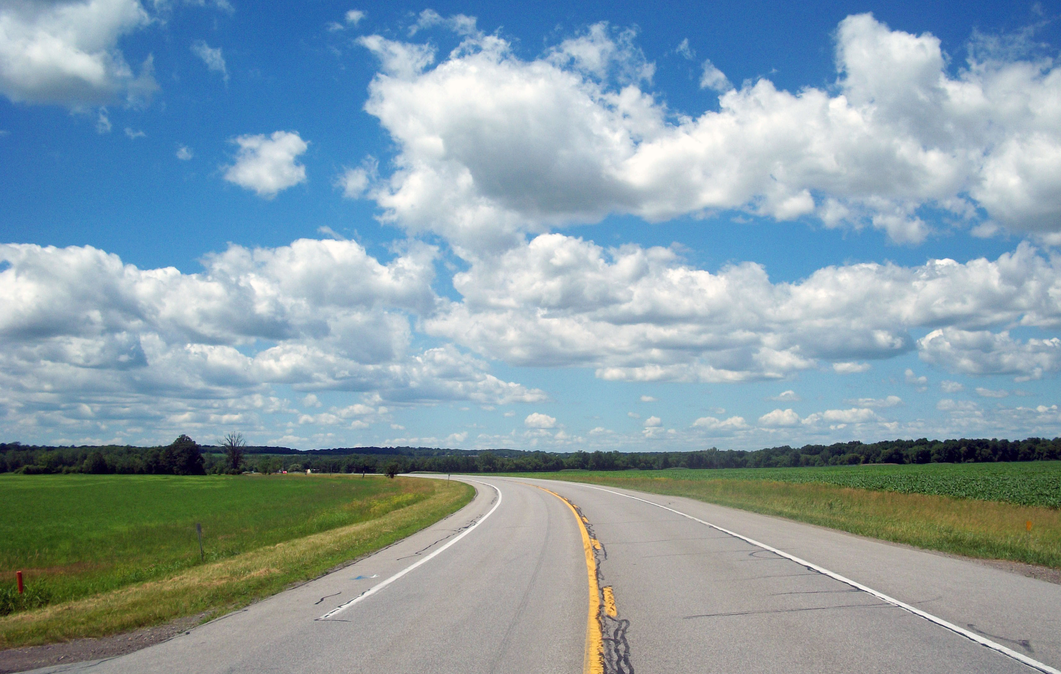 NY 63 curving through flatlands north of Geneseo, NY